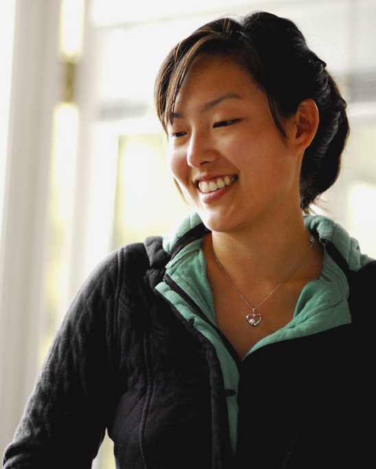 Jane Kim celebrating her birthday in July 2006. At the time she was running for election in her successful second bid for a seat on the San Francisco Board of Education.